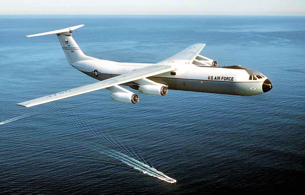 Lockheed C-141A-LM Starlifter 67-0166 (c/n 300-6285) Photo shows aircraft (as C-141B) flying over Atlantic Ocean along New Jersey shoreline. Converted to C-141B 1980/81; later converted to C-141C about 2000. Retired to AMARC Nov 2003. Returned to service early 2004. Was last C-141 Starlifter in operational service, On 7 April 2006, aircraft was flown from Wright-Patterson AFB, Ohio to Scott AFB, Illinois. Now on static display at the "Scott Field Heritage Airpark".